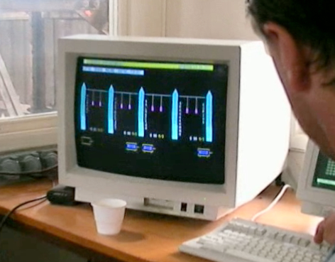 Control display for the Forsby-Köping limestone cableway, displays sensor states along the track and start/stop of the motors.